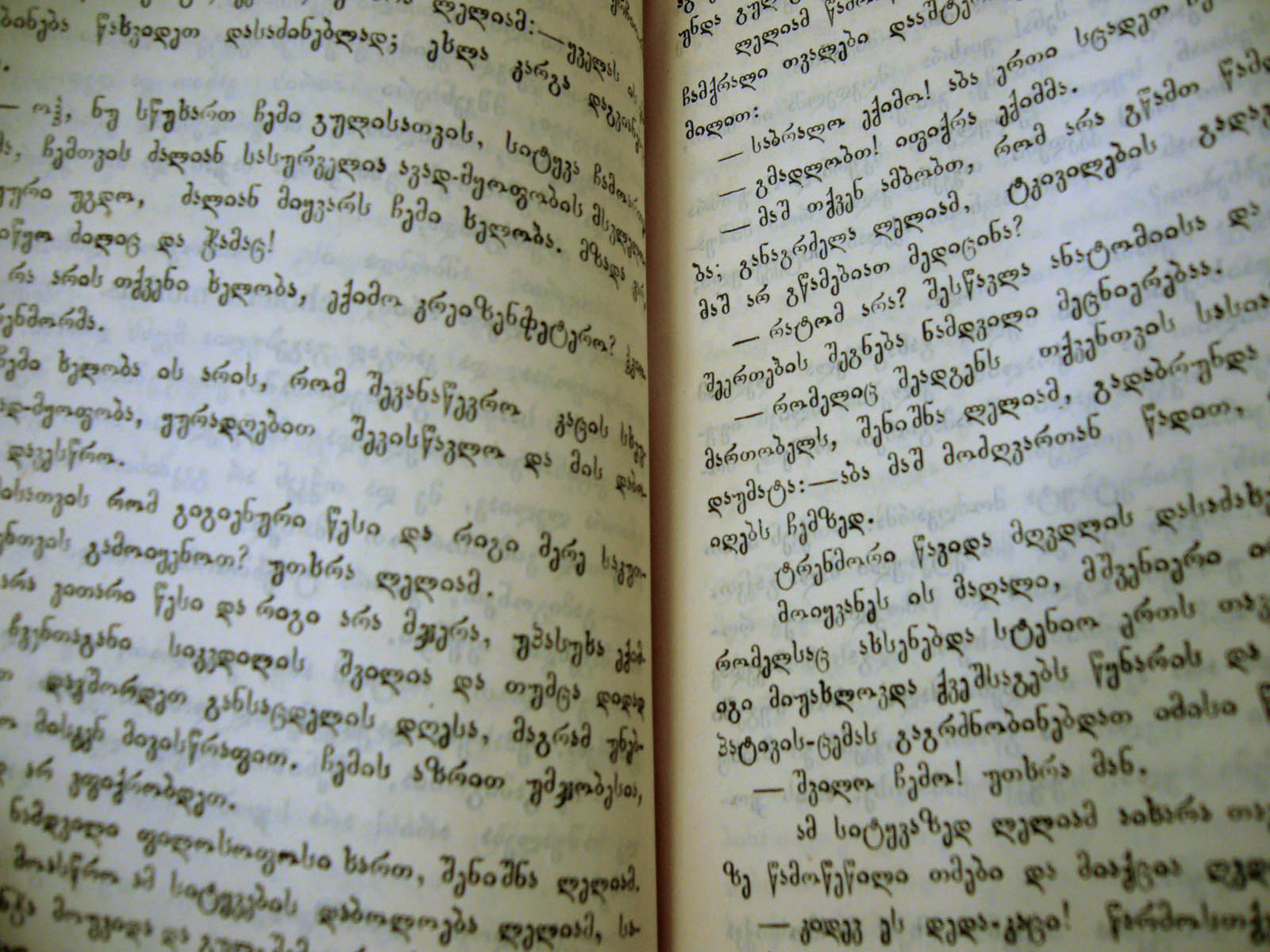 Picture of a 1914 Georgian book containing the collected works of Ilia Chavchavadze (1837-1907)